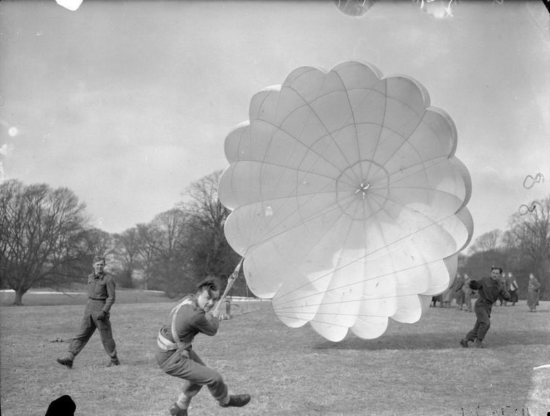 The Polish Army in the United Kingdom, 1940-47 The first step in the training of parachutists is the correct way to land. At this Polish Parachute Training Centre at Largo House, Fifeshire, soldiers of the 1st Polish Independent Parachute Brigade are seen receiving their initial instruction in landing. From this they carry on through the various stages of the course to energe finally as fully fledged paratroops.